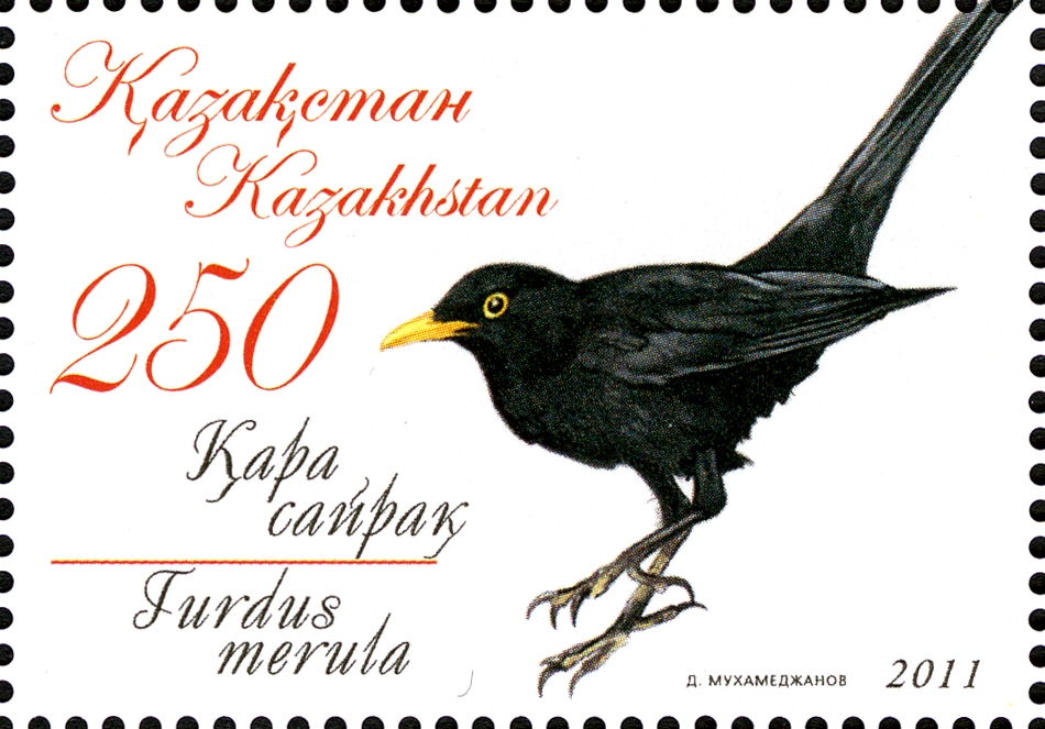 Stamps of Kazakhstan, 2011